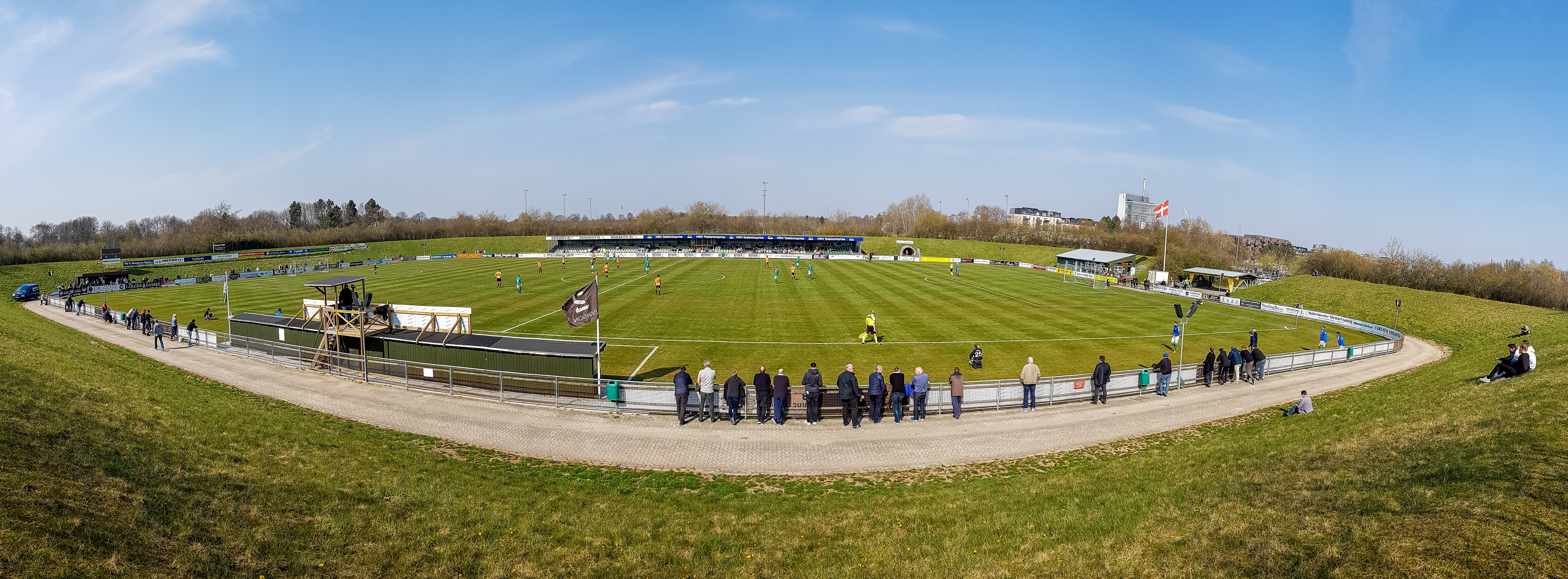 Panorama of Espelundens Idrætsanlæg during the football match between BK Avarta and Hillerød Fodbold in the Danish 2nd division (6 April 2019)